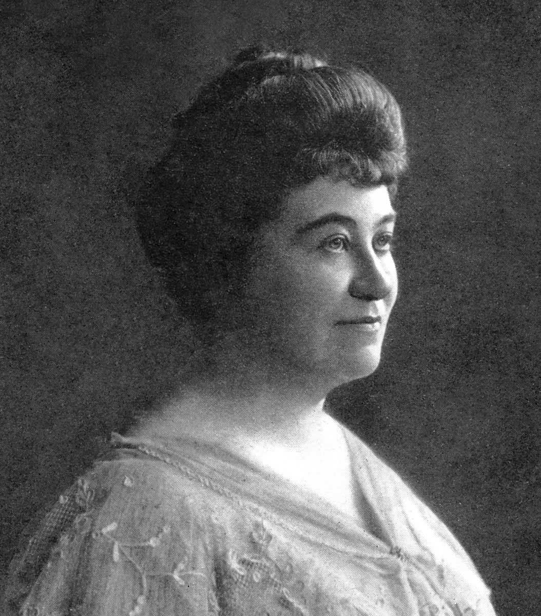 Ella Christie in 1909. Isabella "Ella" Robertson Christie FRSGS FSAS FRGS (21 April 1861 - 29 January 1949) was a pioneering Scottish traveller and explorer, landowner, gardener and author.